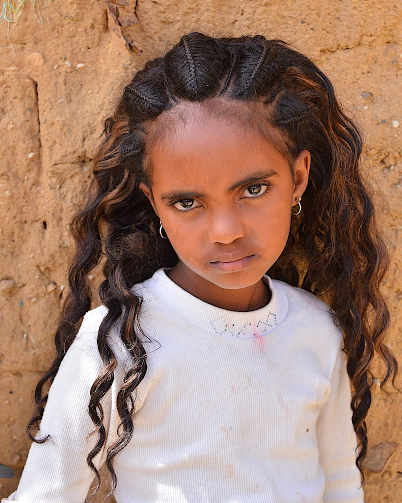 Adigrat Girl, Tigray, Ethiopia.